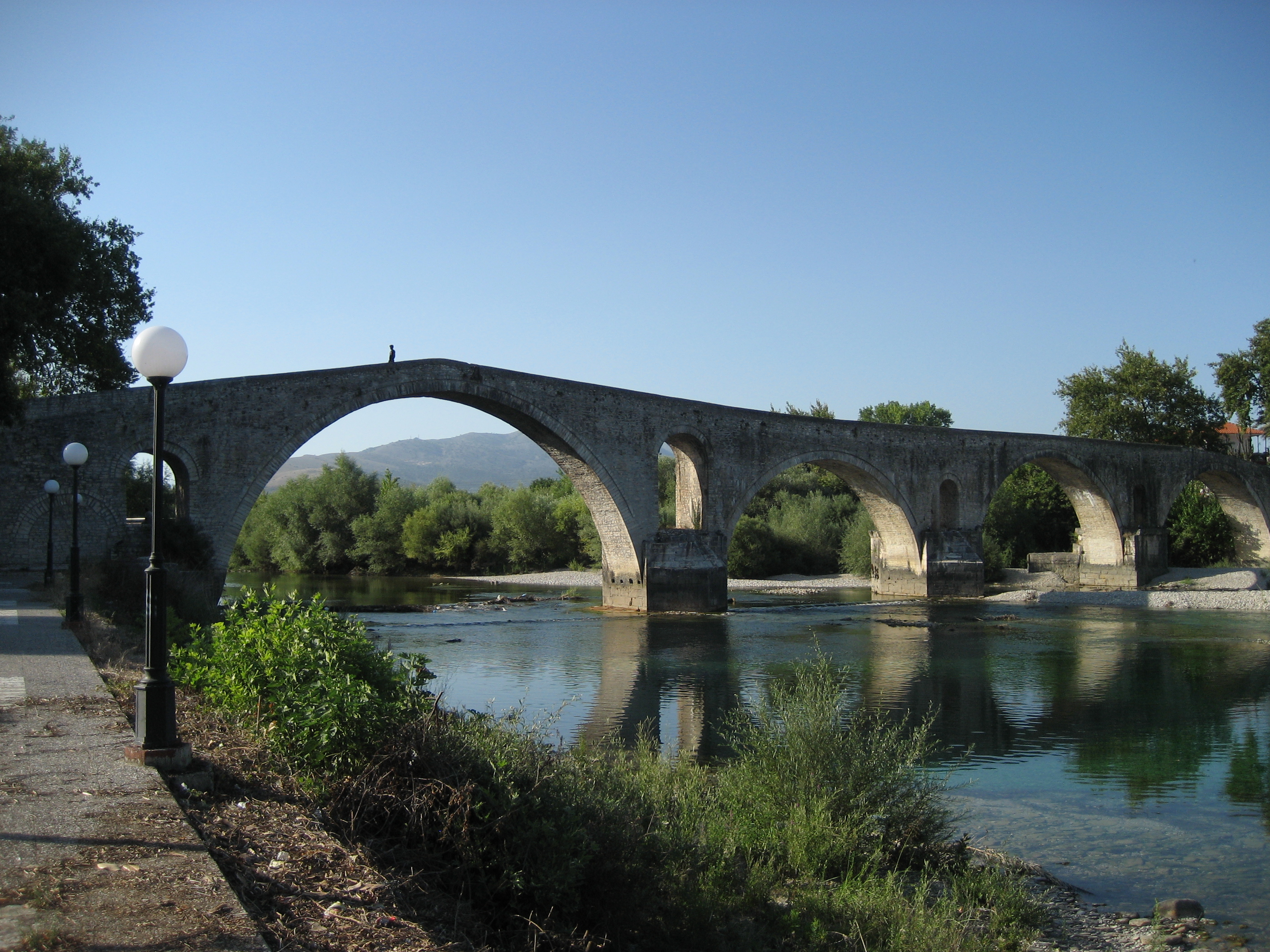 Bridge of Arta (Greece)